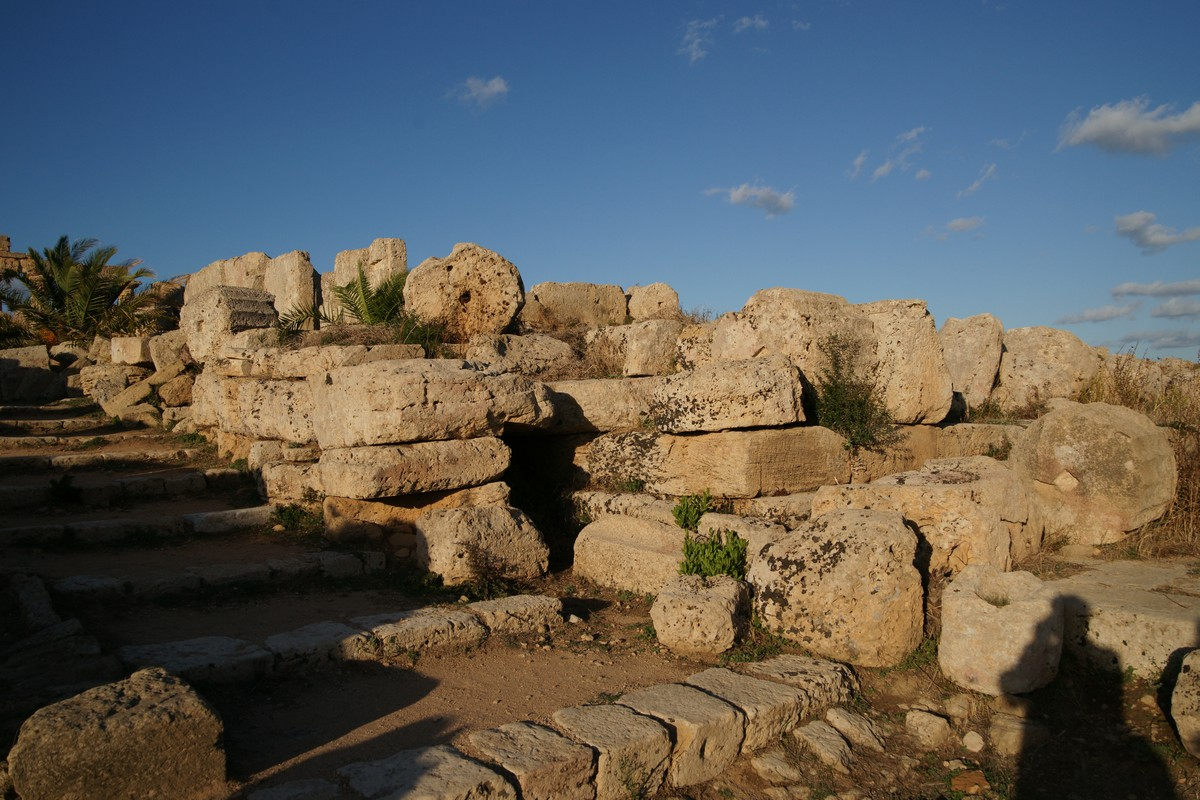 Selinunte: Temple A (on Akropolis)